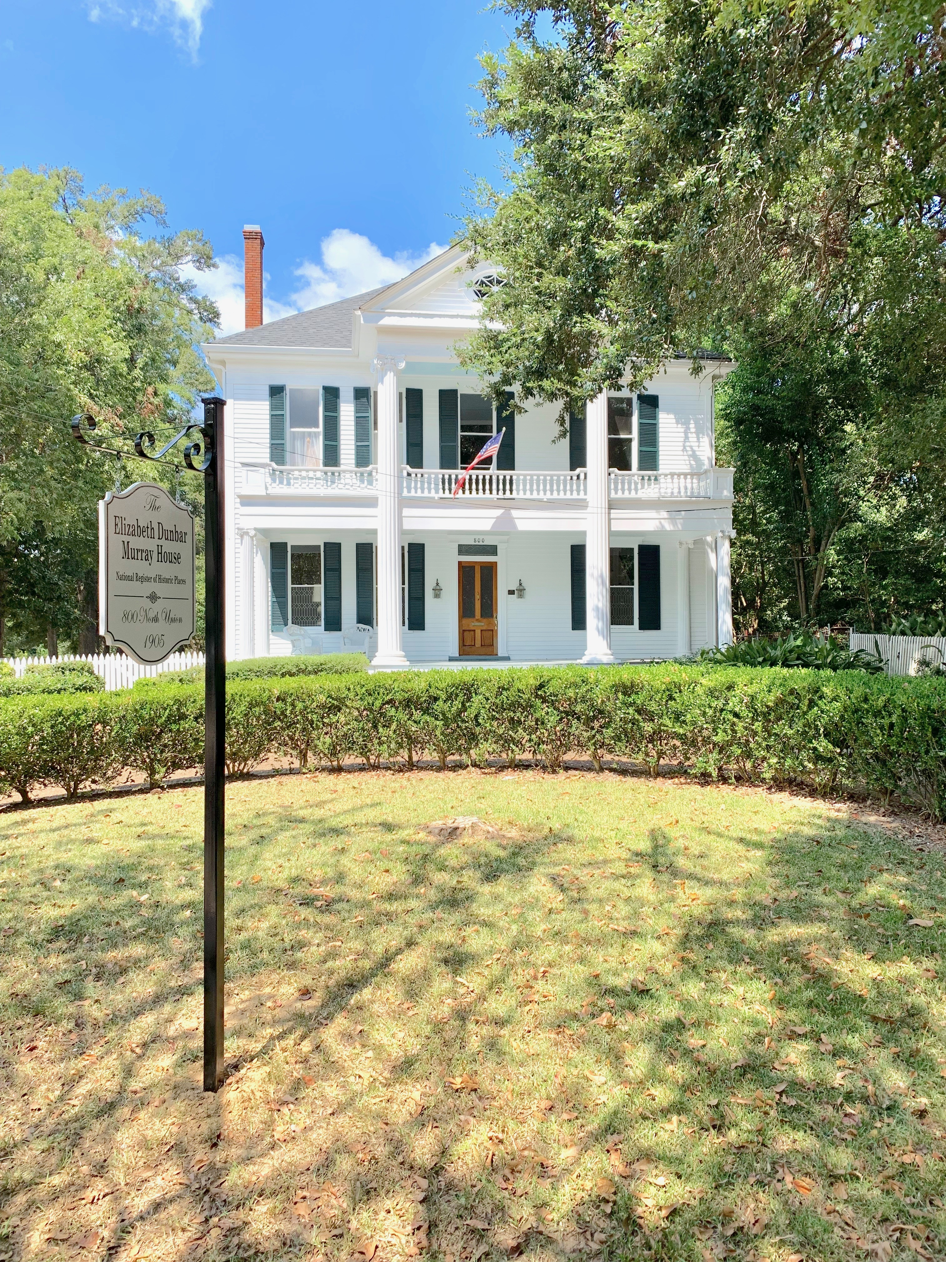 Photo of Elizabeth Dunbar Murray House located at 800 N. Union Street